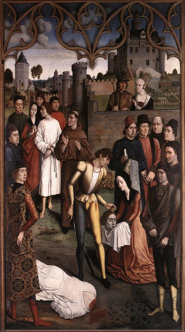 Justice panel:The Execution of the Innocent Count